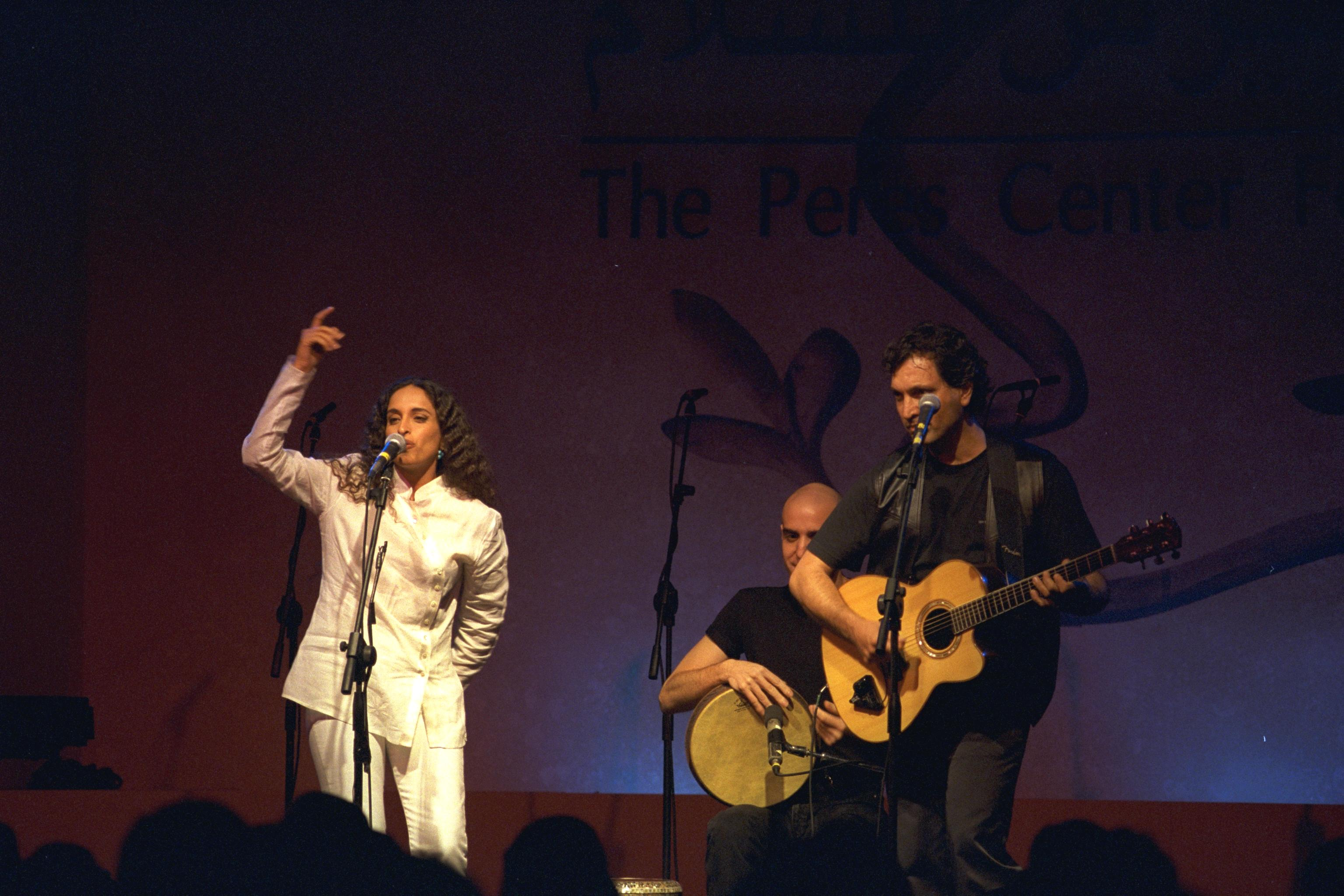 Singer Ahinoam Nini performing at the opening of the Peres Institute for Peace at Tel Aviv's Hilton hotel. אחינועם ניני בהופעה במלון הילטון בתל אביב לכבוד בפתיחת מרכז פרס לשלום Photo: Moshe Milner (1946–) Alternative names Miylner, Moše; Milner, Mosheh; Moshé Milner; Milner, M.; Mîlner, Moše; Miylner, MošehDescriptionIsraeli photographerצלם ישראליDate of birth 1946 Location of birth Germany Authority control : Q28750411 VIAF: 100999744 ISNI: 0000 0001 0804 0507 LCCN: n82072104 GND: 115699732 BNF: 15548788n WorldCat creator QS:P170,Q28750411 , 10/20/1997